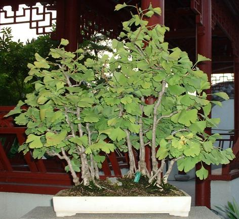 A group of Ginkgo grown as penjing; photographed in the Montreal botanical gardens photo taken by User:Aarchiba. first upload: April 20, 2004 - wiki by the photographer